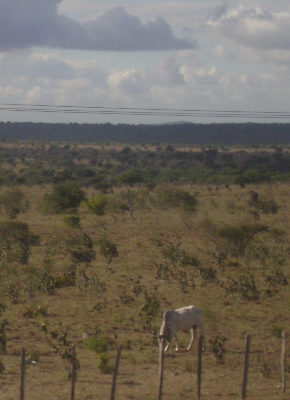 Paisagem típica do agreste da Bahia, próximo ao município de Jequié.